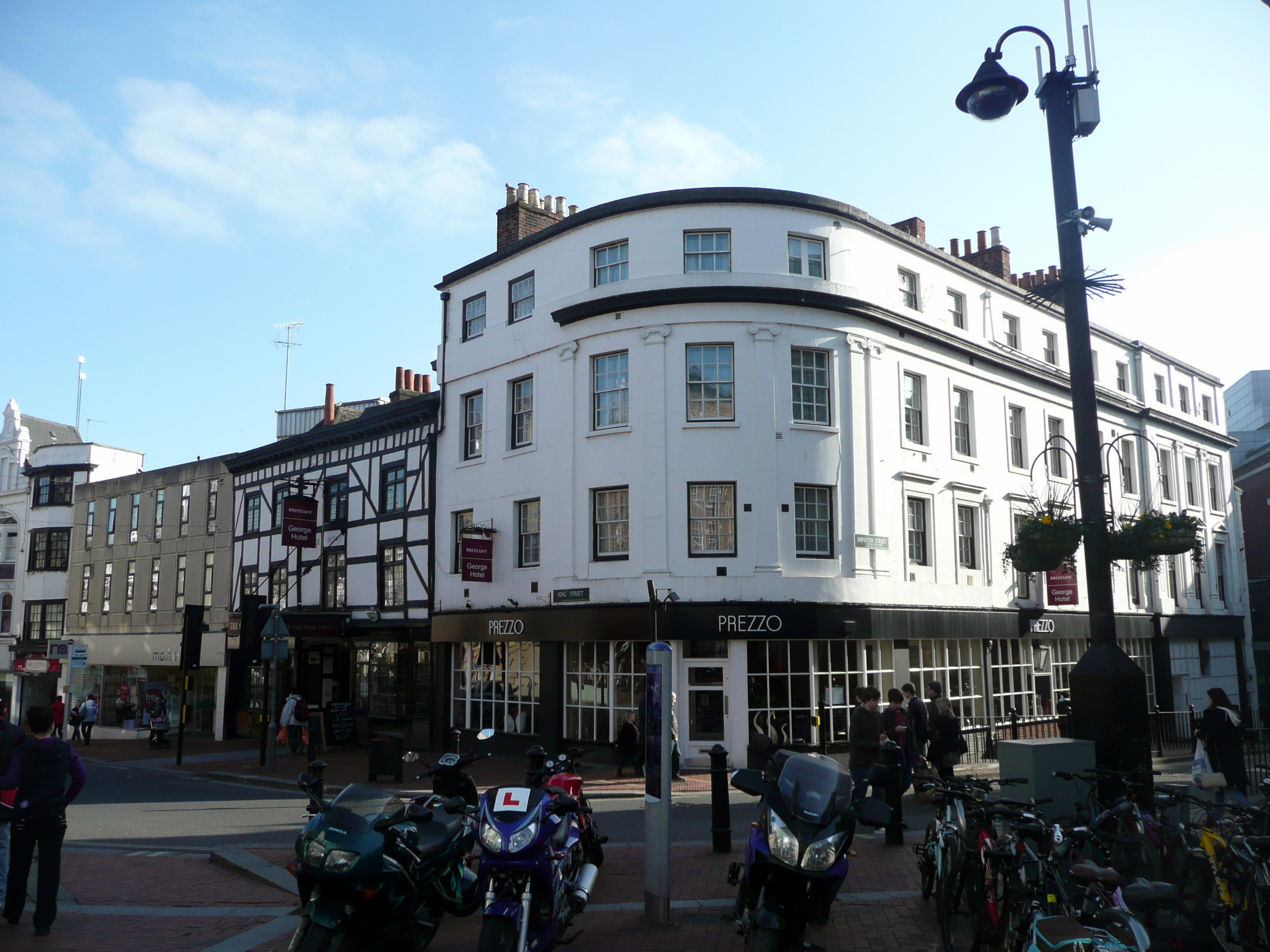 The George Hotel, King Street, Reading. 18th Century Coaching Inn with 19th Century addition.